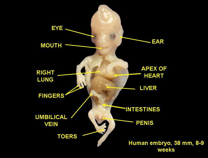 Dissection